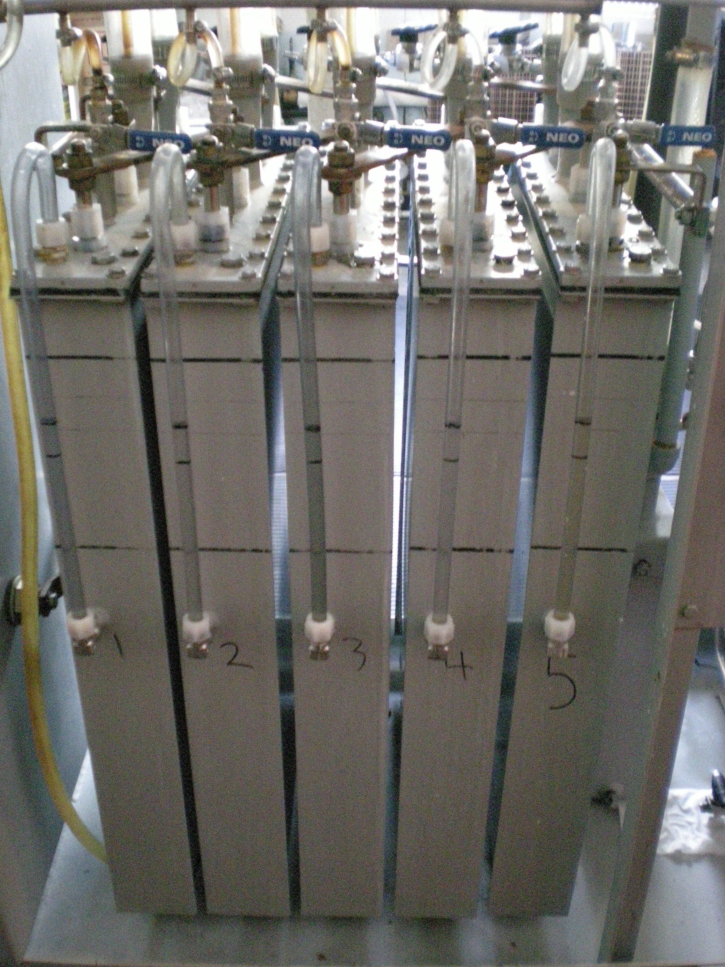 Detail of the front of the cells on the electroloyser.